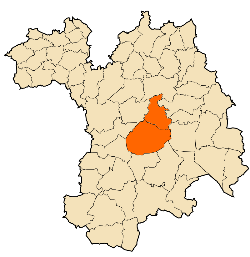 Guidjel is a town in the wilaya of Setif in Algeria